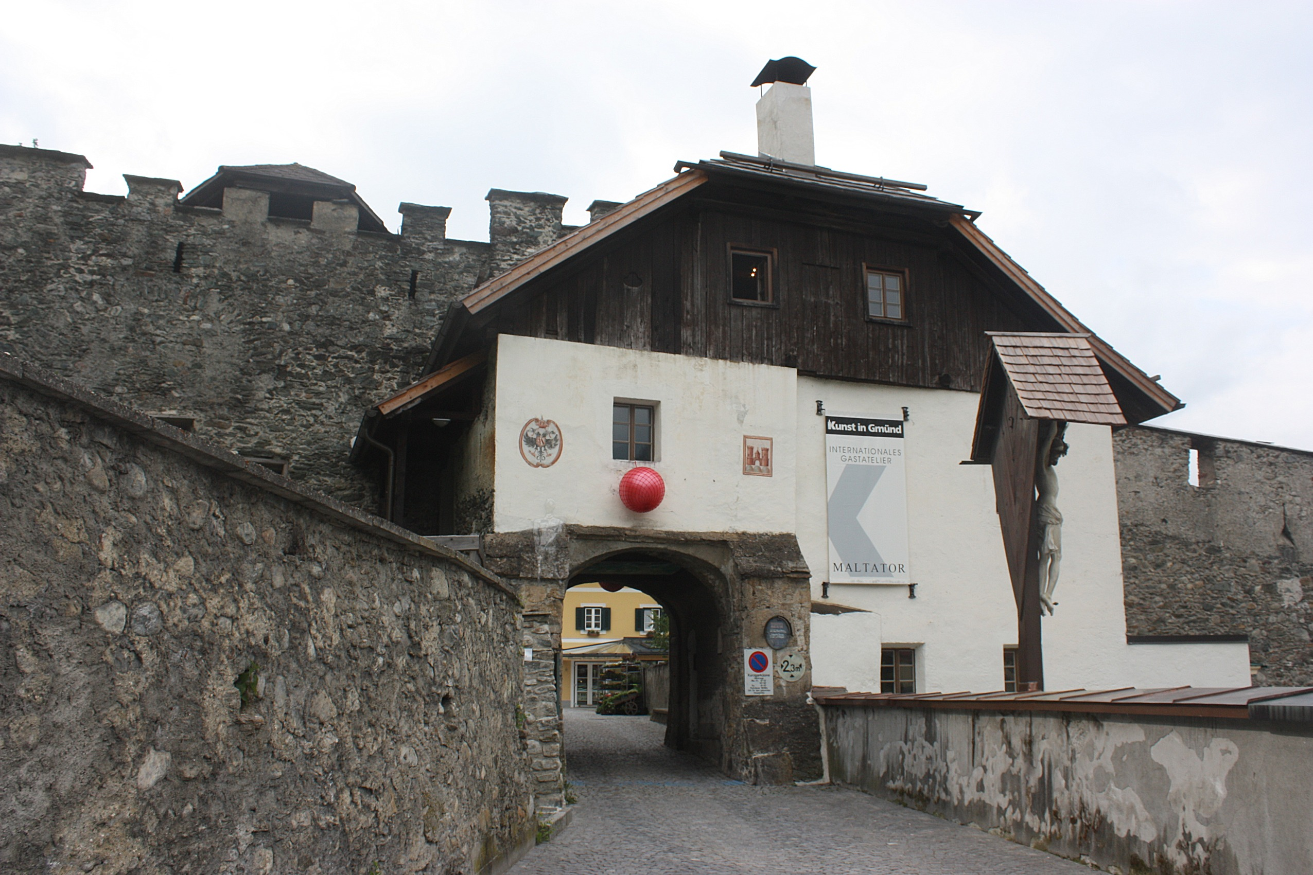 Gmünd, the Malta gate house